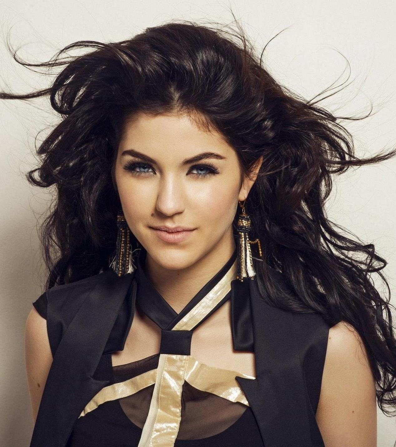 Celeste Buckingham, photographed by Lukáš Dvořák, using Nikon D800.